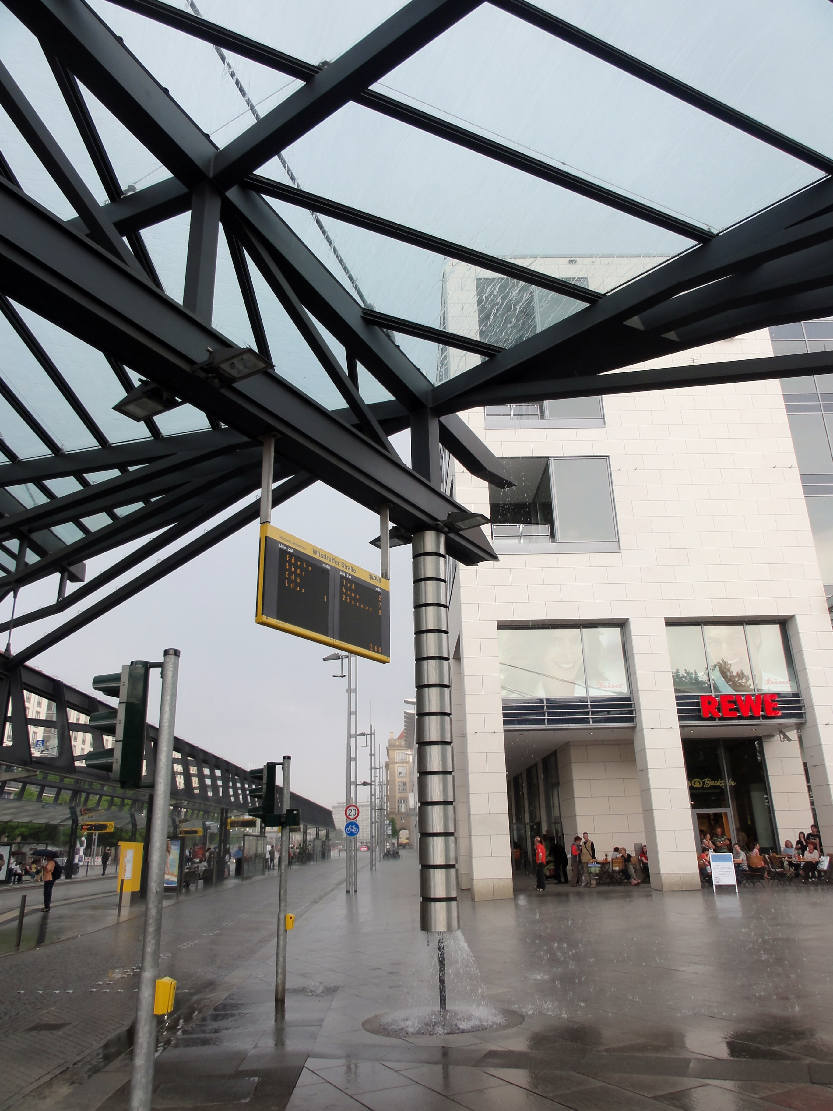 The Postplatz in Dresden with design- downcomer.